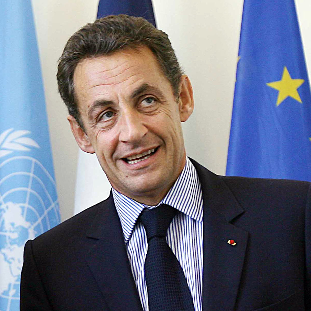 President Sarkozy in New York